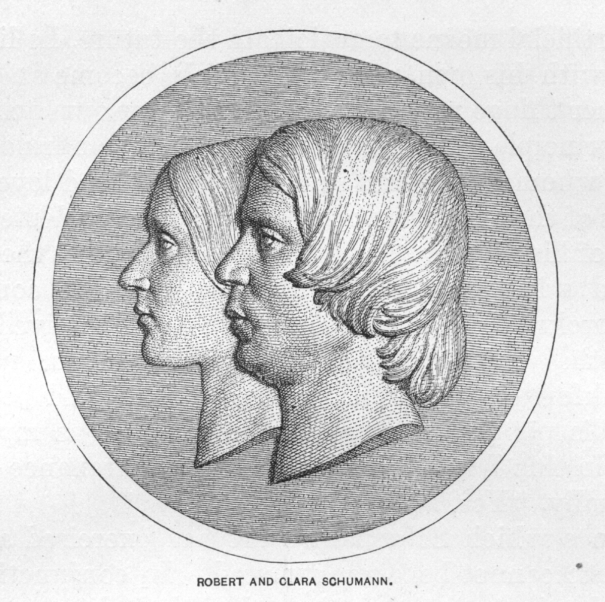 Robert Schumann and Clara Schumann